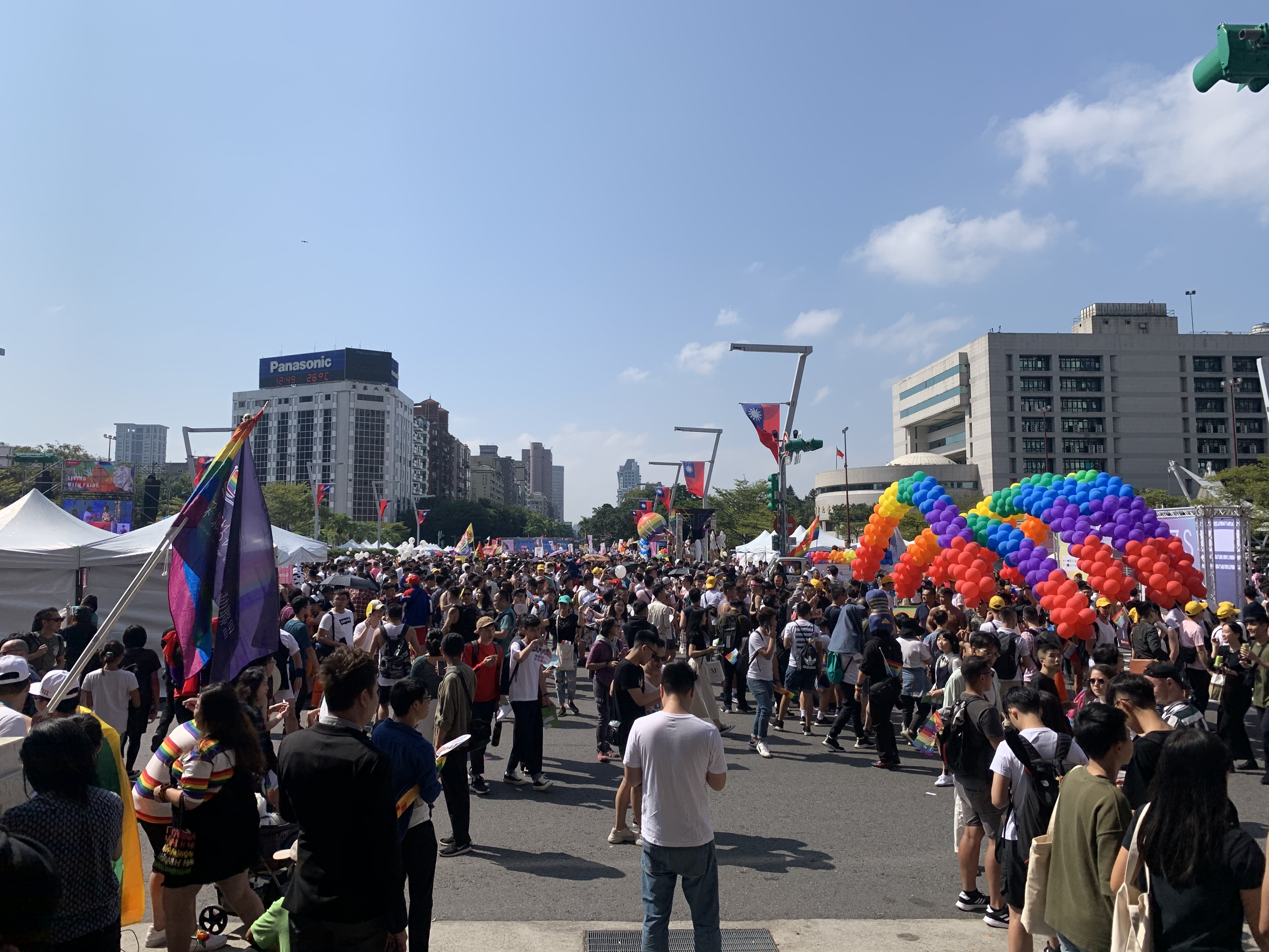 Crowd at the opening performance of Taiwan Pride 2019, shot from the Taipei City Hall